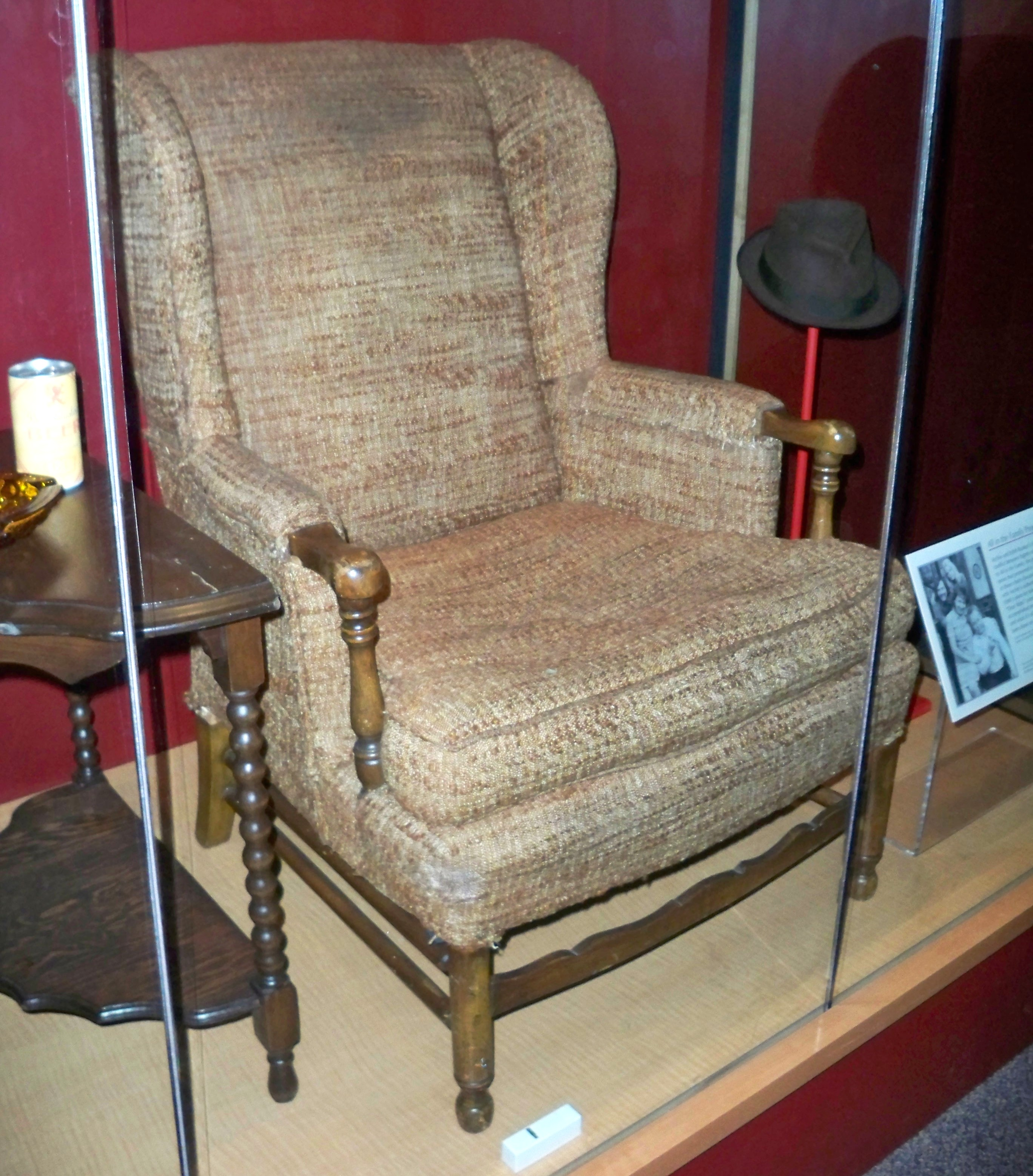 Archie Bunker's chair from All the the Family at the Smithsonian National Museum of American History.